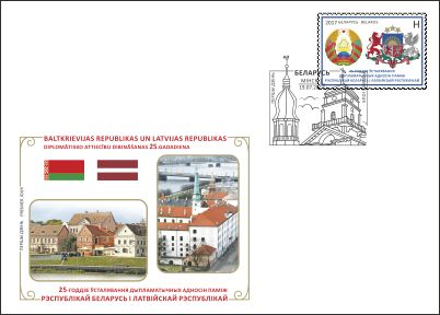 25th anniversary of diplomatic relations between the Republic of Belarus and the Republic of Latvia.